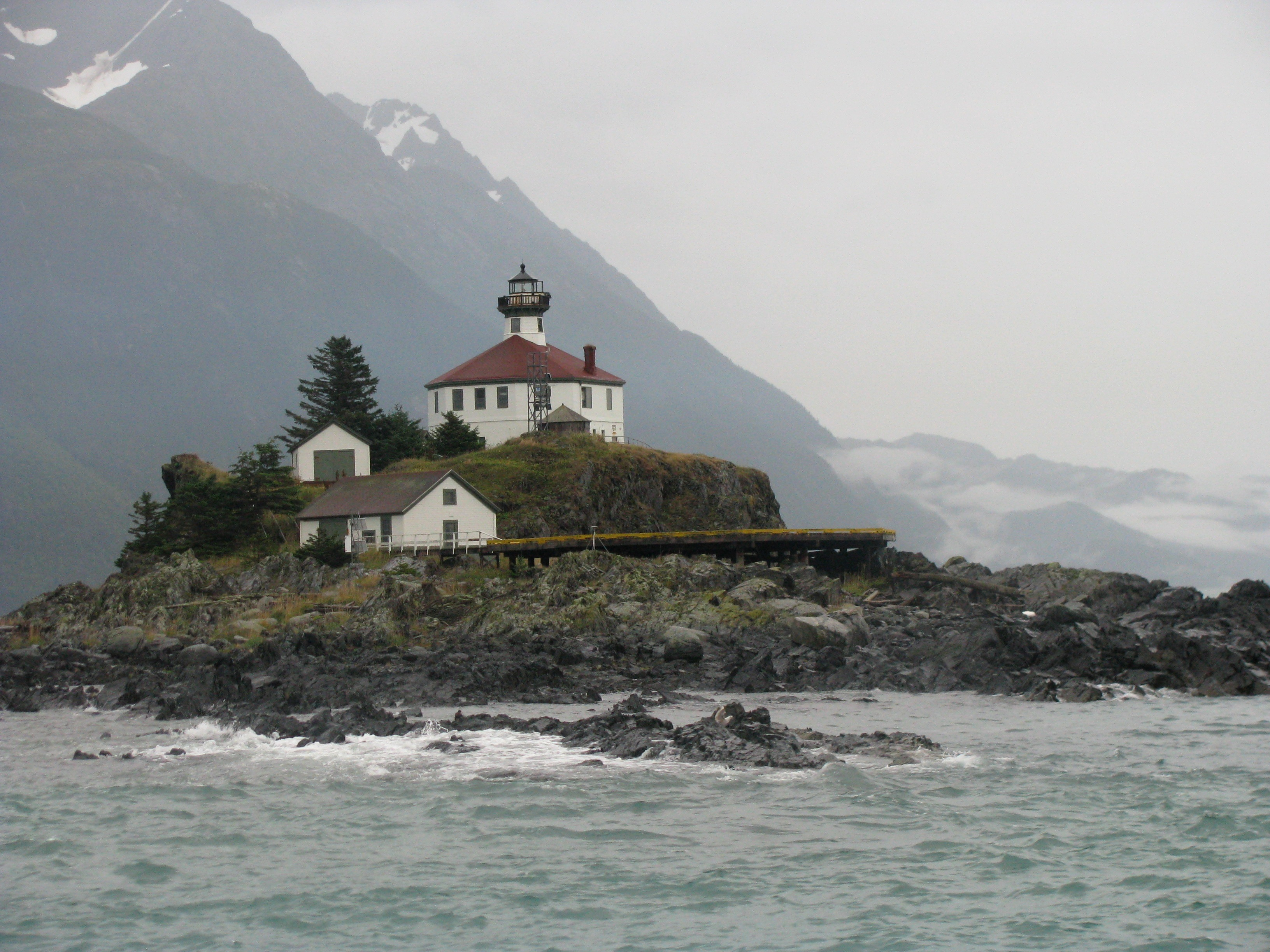 Lighthouse on Eldred Rock along the Inside Passage between Juneau and Skagway, Alaska, USA.